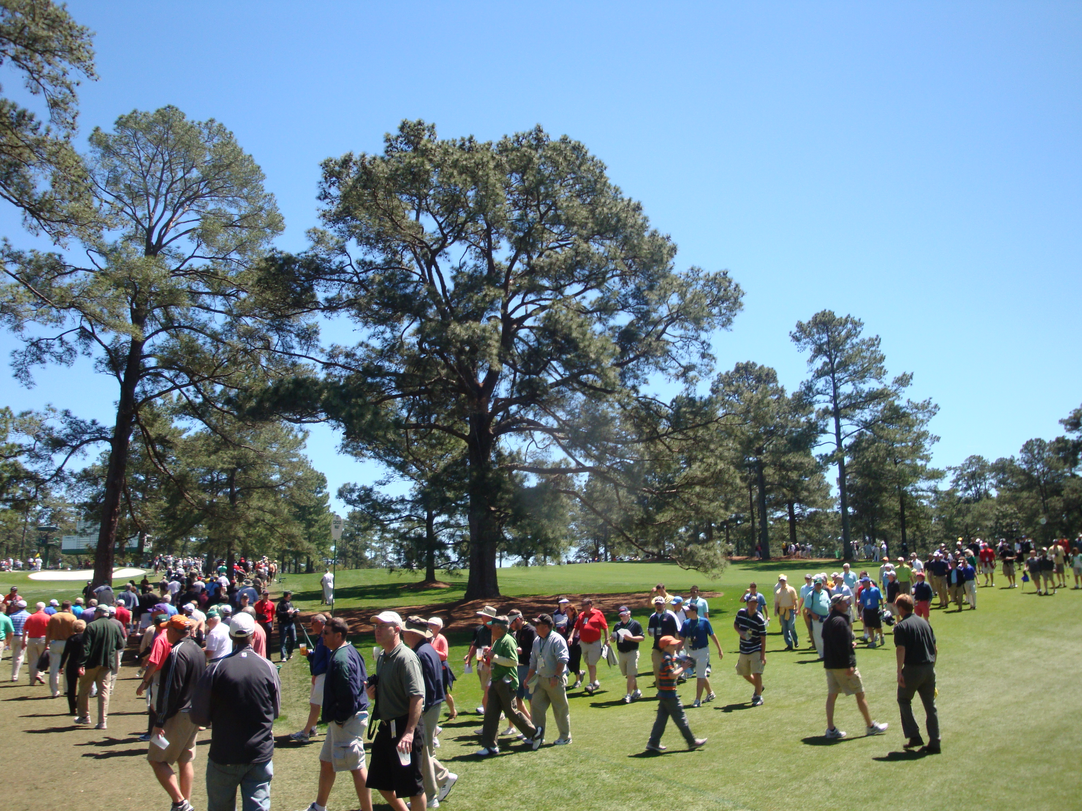 The Eisenhower Tree